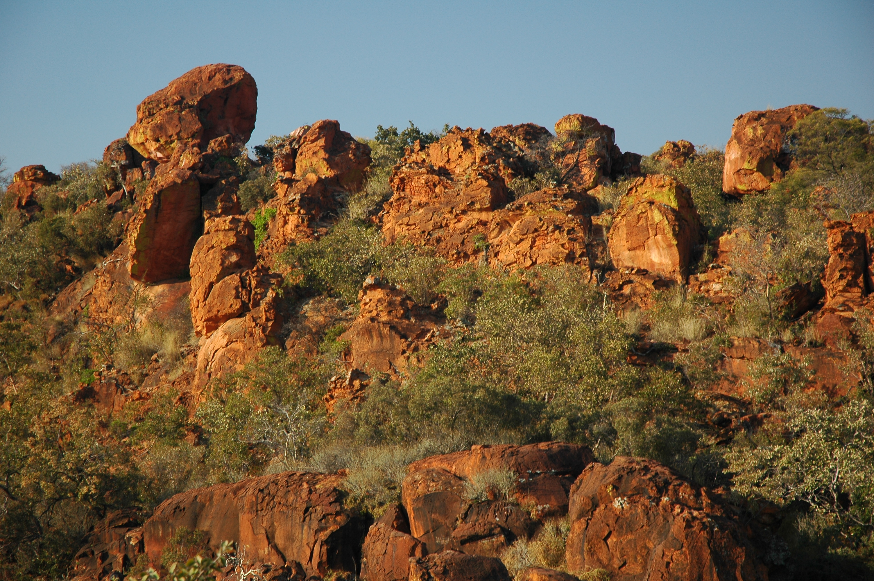 Namibie Waterberg plateau Photographie prise par GIRAUD Patrick